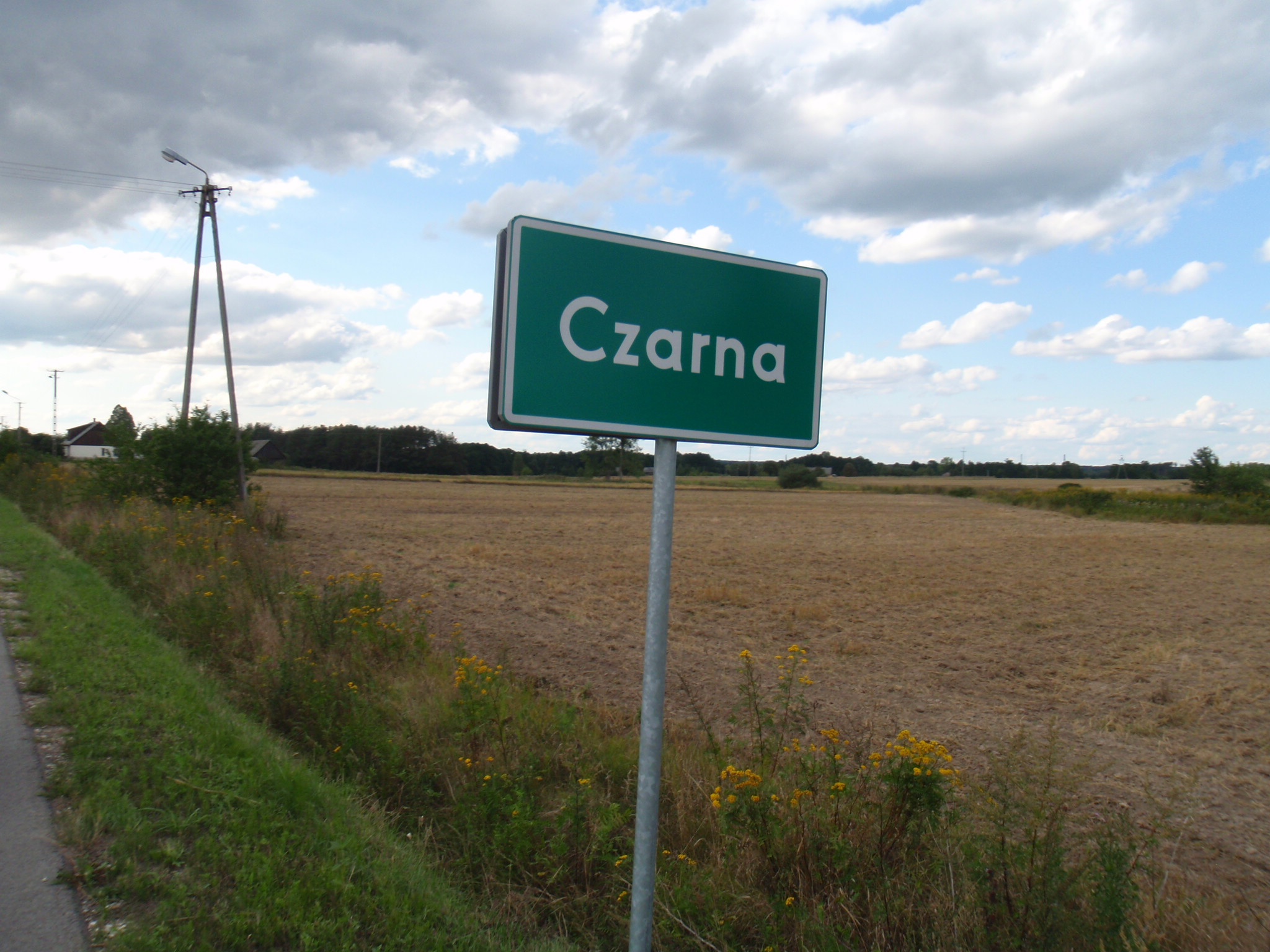 Czarna Wieś village - entrance from Bieliny